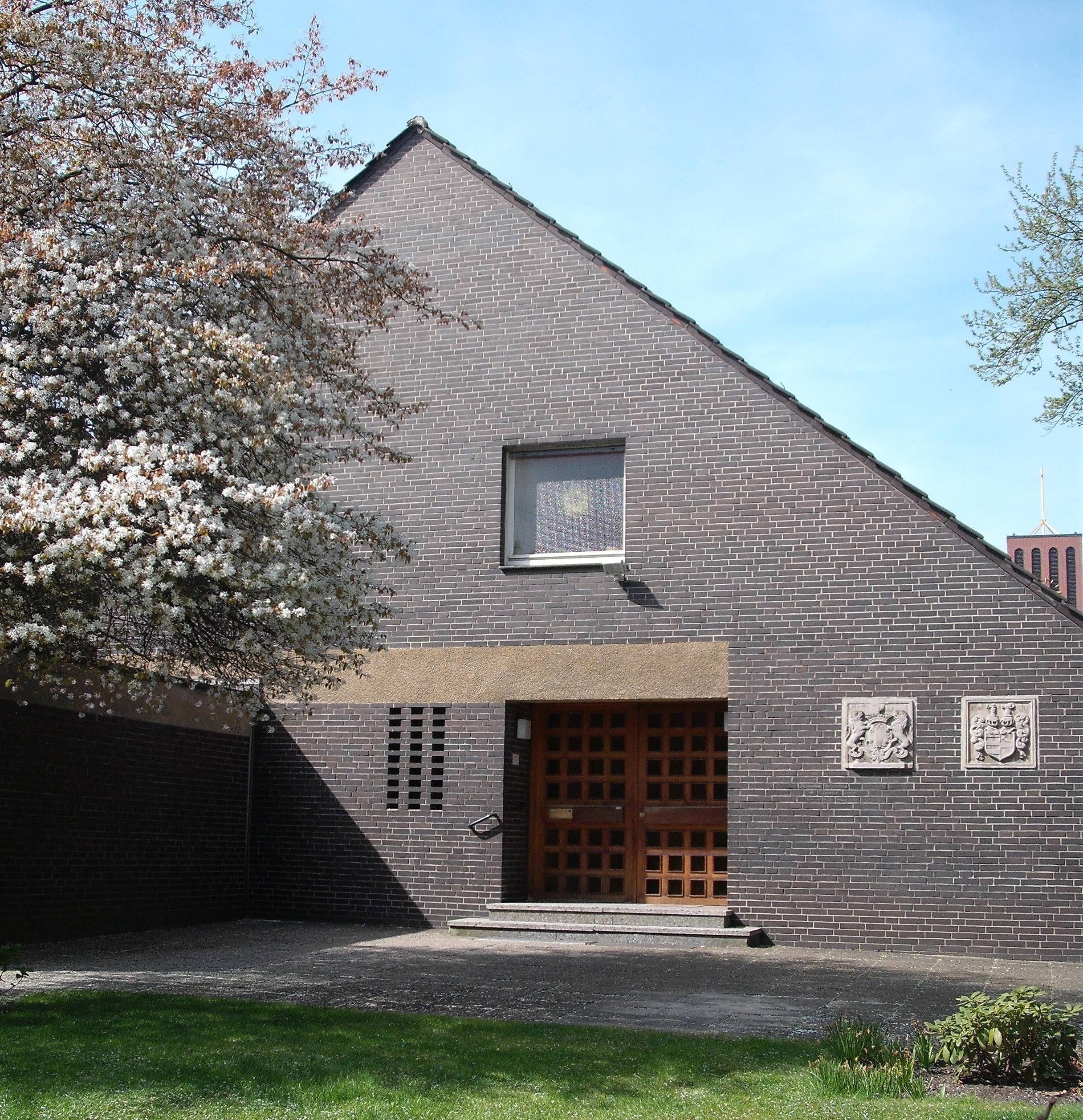 New cloister in Oberhausen Sterkrade